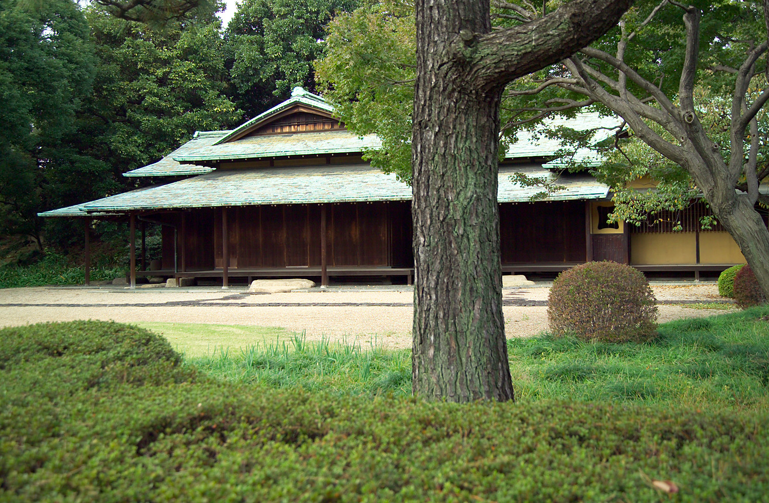 This photo shows a tea pavilion, Suwa no Chashitsu (諏訪の茶室) in the East Gardens of the Kokyo (Imperial Palace, formerly Edo Castle) in Tokyo, Japan. I took the photo and contribute my rights in the file to the public domain; individuals and organizations retain rights to images in the file.